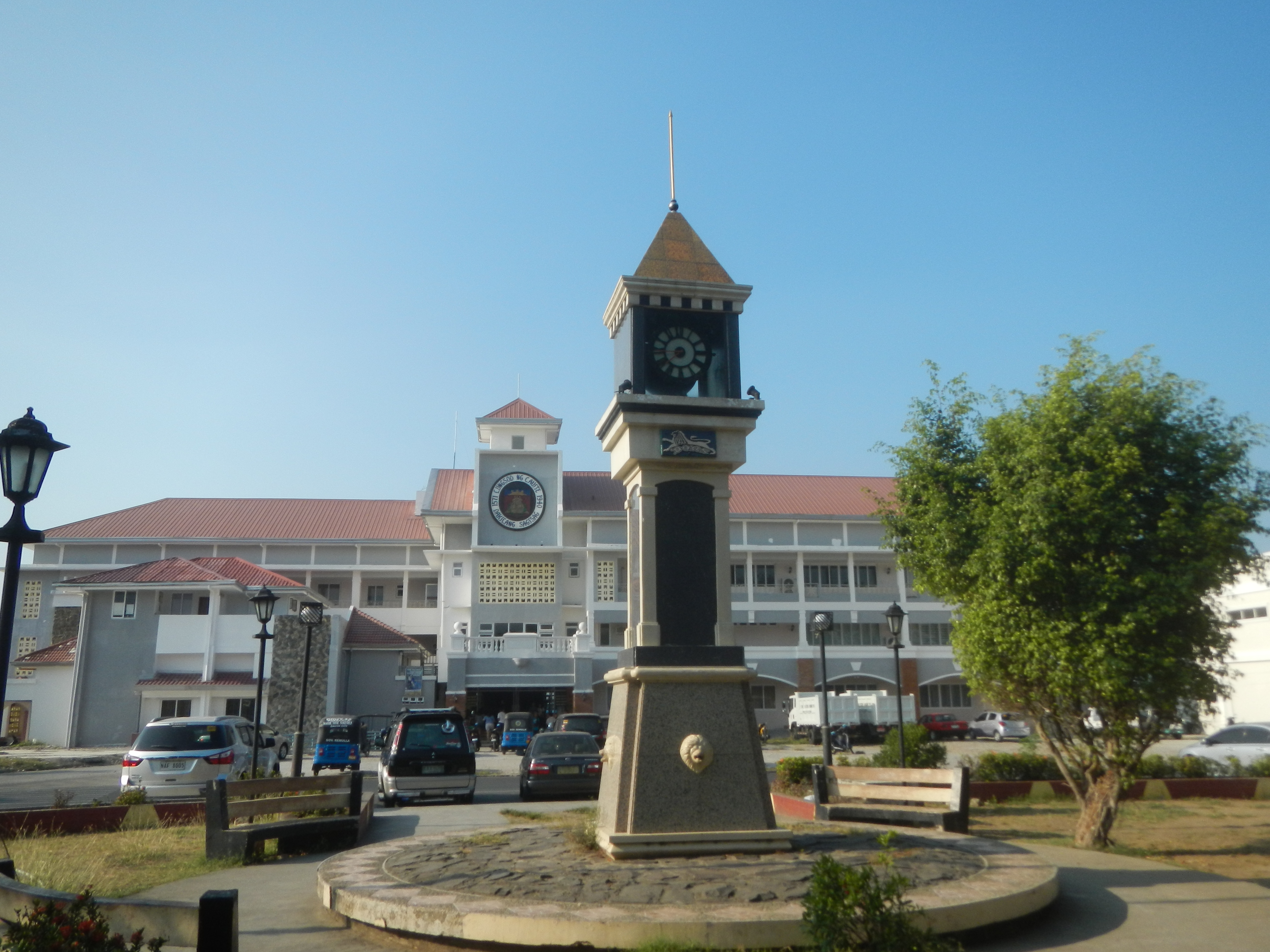 New Cavite City Hall Cavite City clock tower Cavite City Port and Navy Yard - Bacoor Bay Cavite City Hall of Justice Negosyo Center Cavite City Cavite City park and children's playground Jose Rizal monuments in Cavite City Barangays 61-A (Talong A; Poblacion) & 62-A (Kangkong A; Poblacion), Cavite City from Dalahican Manila-Cavite Road Cavite City along Bacoor Bay Category:Barangays of Cavite Barangays Barangay 61-A (Talong A; Poblacion) 14.4802, 120.9036 Barangay 62-A (Kangkong A; Poblacion), Cavite City 14.4823, 120.9128 Cavite City N62 highway (Philippines) Philippine highway network (Note: Judge Florentino Floro, the owner, to repeat, Donor Florentino Floro of all these photos hereby donate gratuitously, freely and unconditionally Judge Floro all these photos to and for Wikimedia Commons, exclusively, for public use of the public domain, and again without any condition whatsoever).